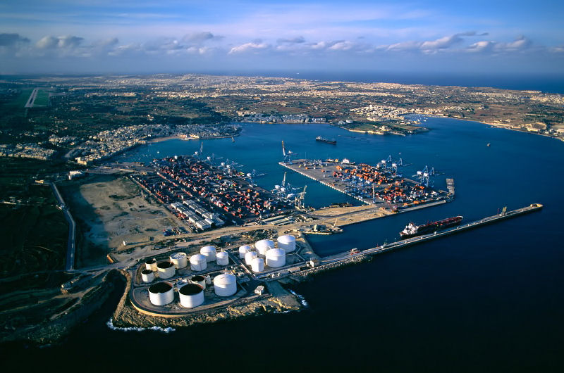 Malta